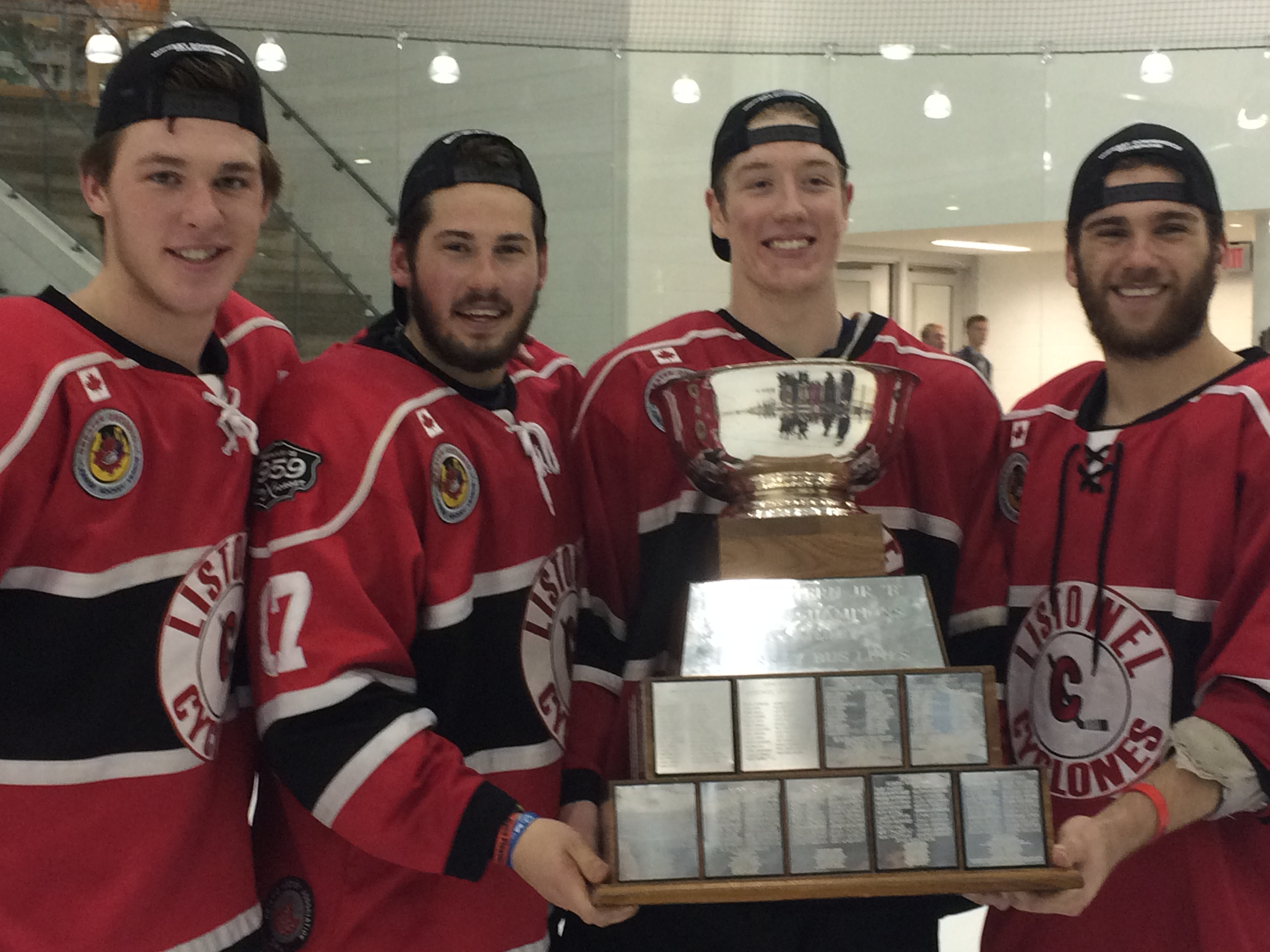 Boys with the Cherrey Cup